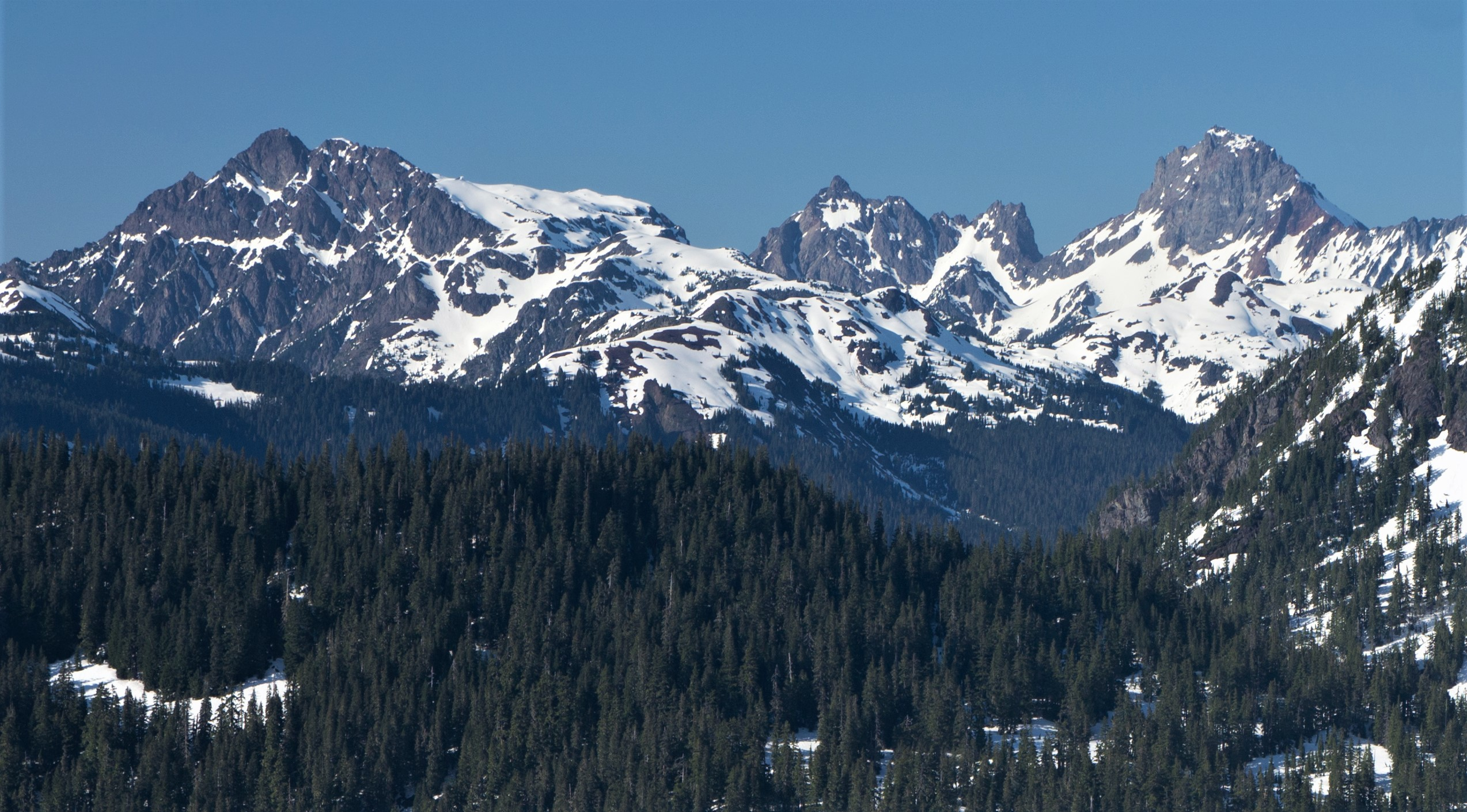 Looking north over the Galena Lakes towards Tomyhoi and the border peaks